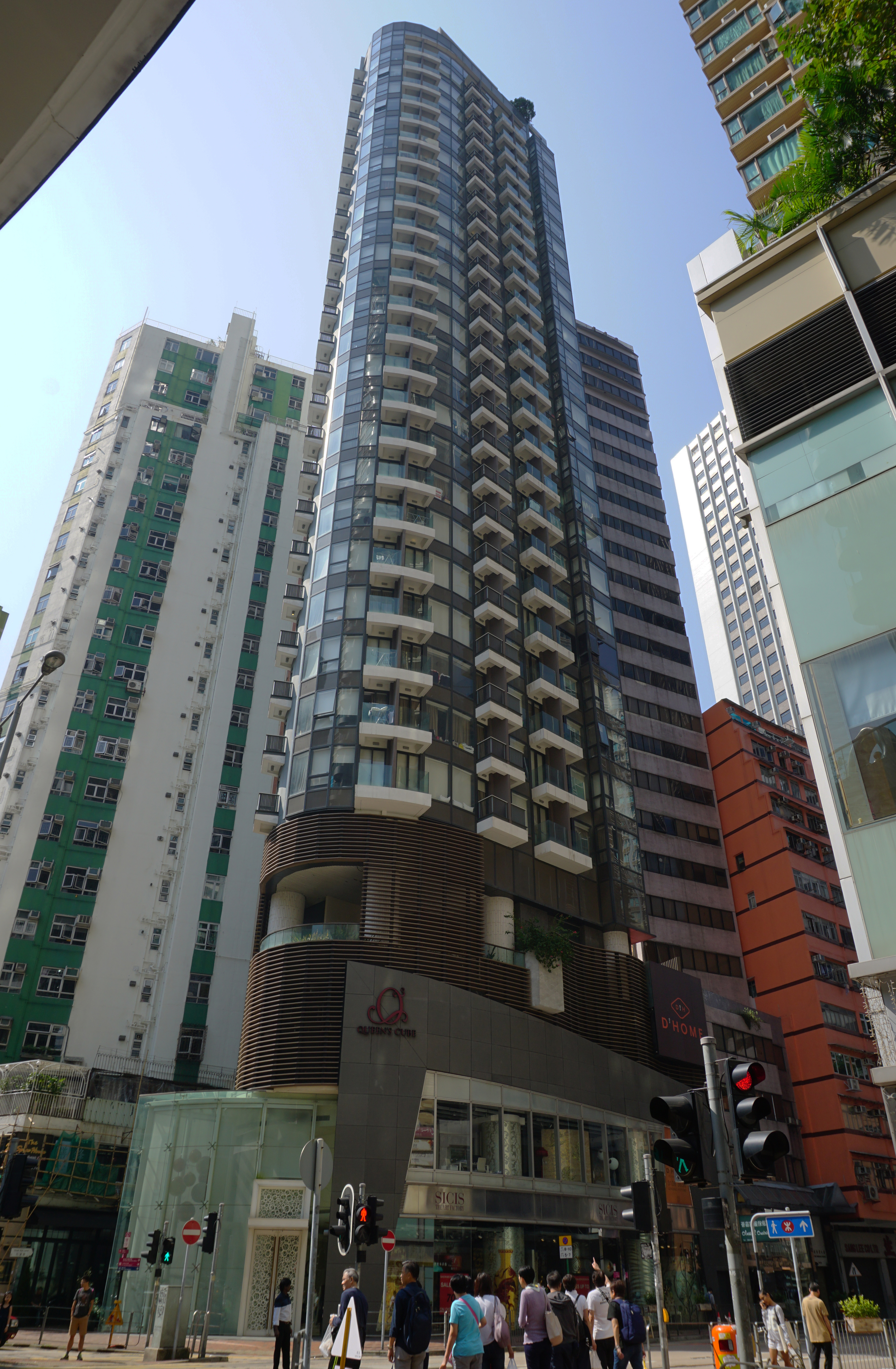 Queen's Cube in Wan Chai, Hong Kong.